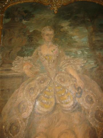 I took this photo on 4th November 2005.